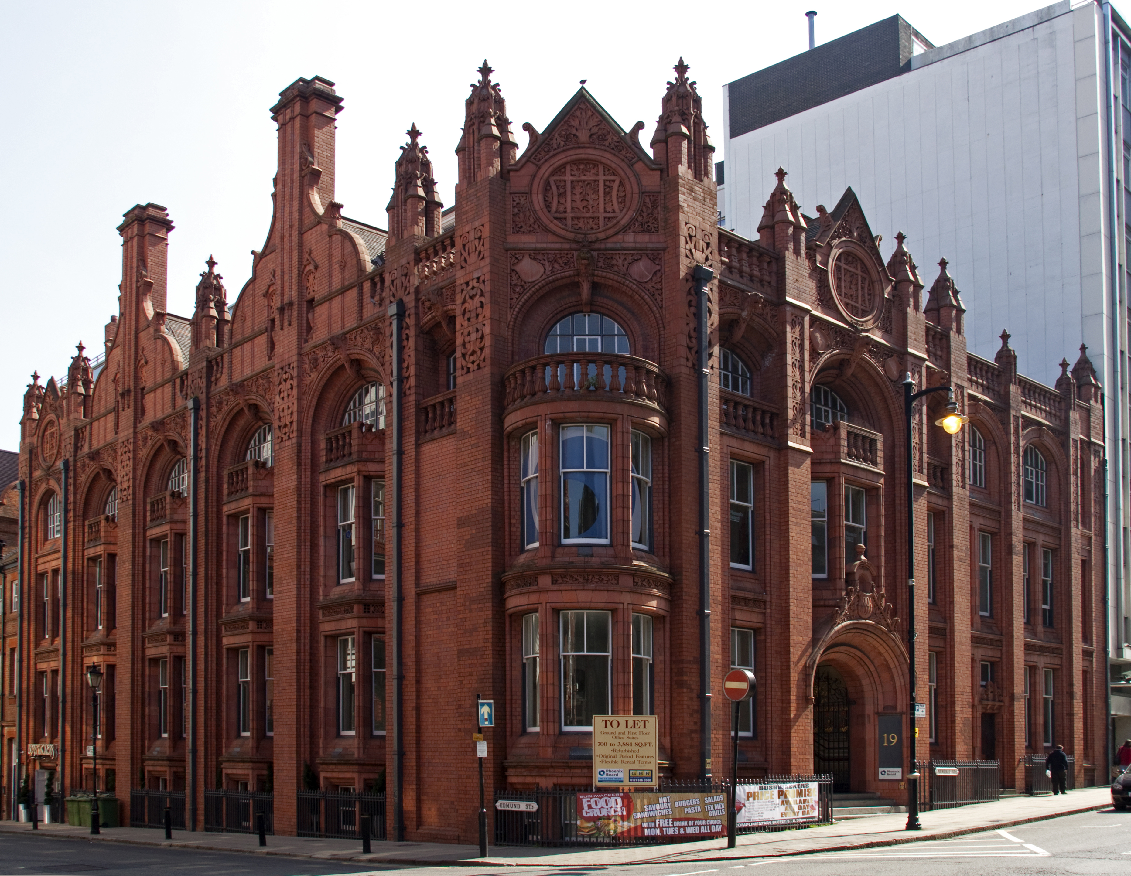 17 & 19 Newhall Street is a red brick and terracotta Grade I listed building on the corner of Newhall Street and Edmund Street in the city centre of Birmingham. It was built as the new Central Telephone Exchange and offices for the National Telephone Company and was popularly known as the Bell Edison Telephone Building. It is now offices